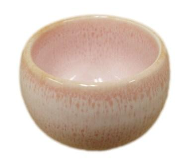 Ceramic Sake Cup made in Japan. Sake Cups